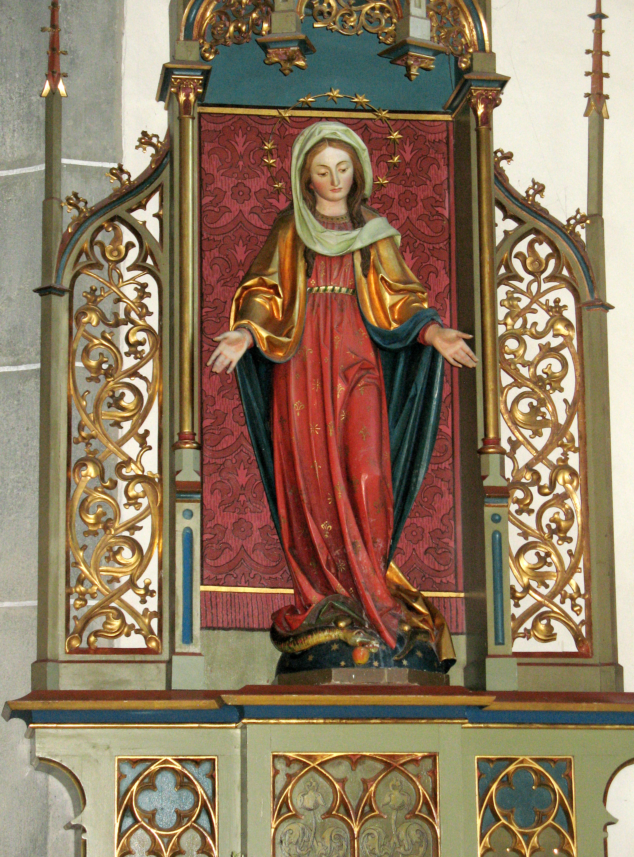 Church to Our Lady Lajen South Tyrol Virgin Mary by Josef Meraner 1906